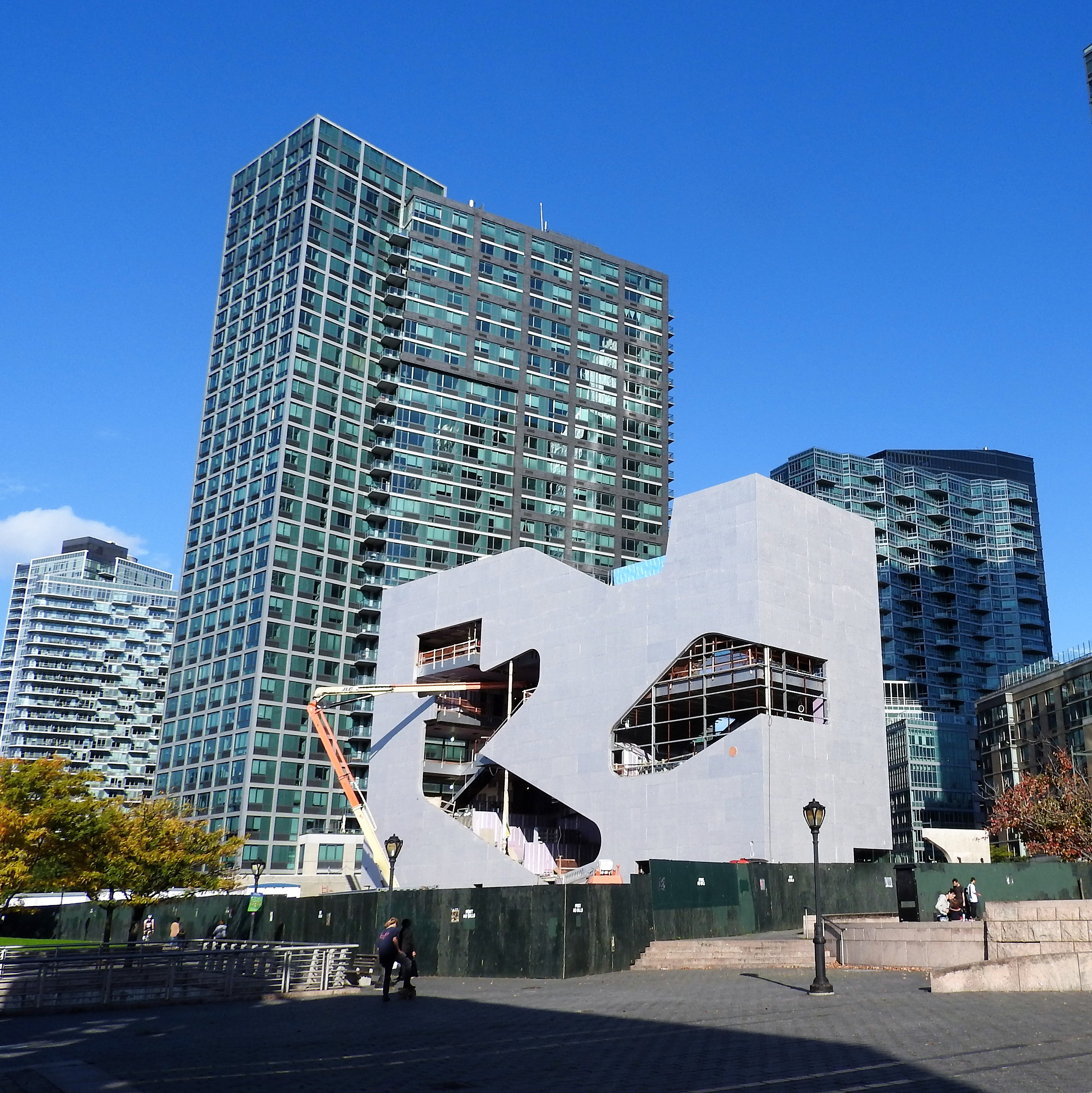 Looking east at not yet completed library branch on a mostly sunny day.